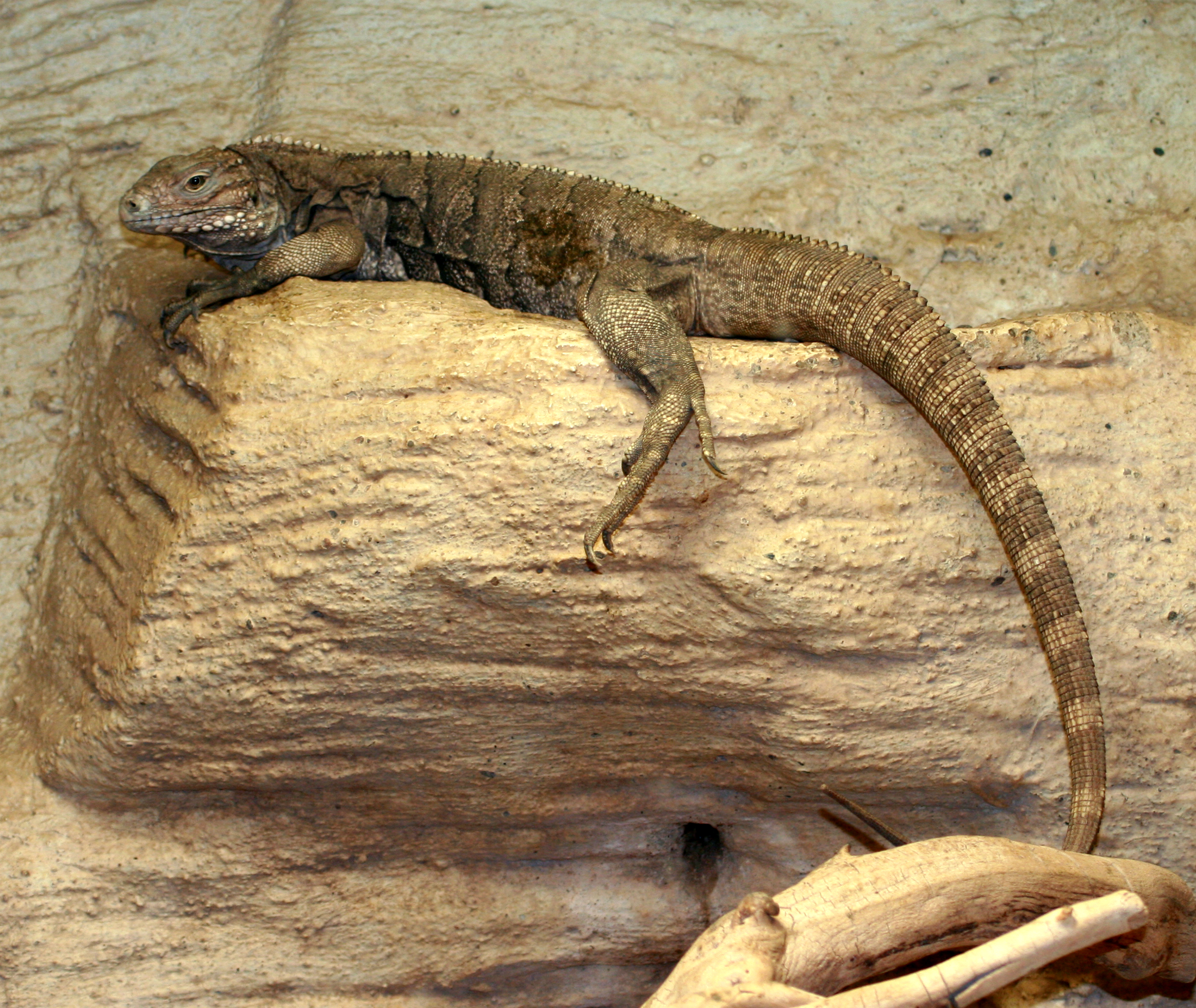 Cyclura nubila, “Cyclura nubila” in ZOO Praha, Czech Republic